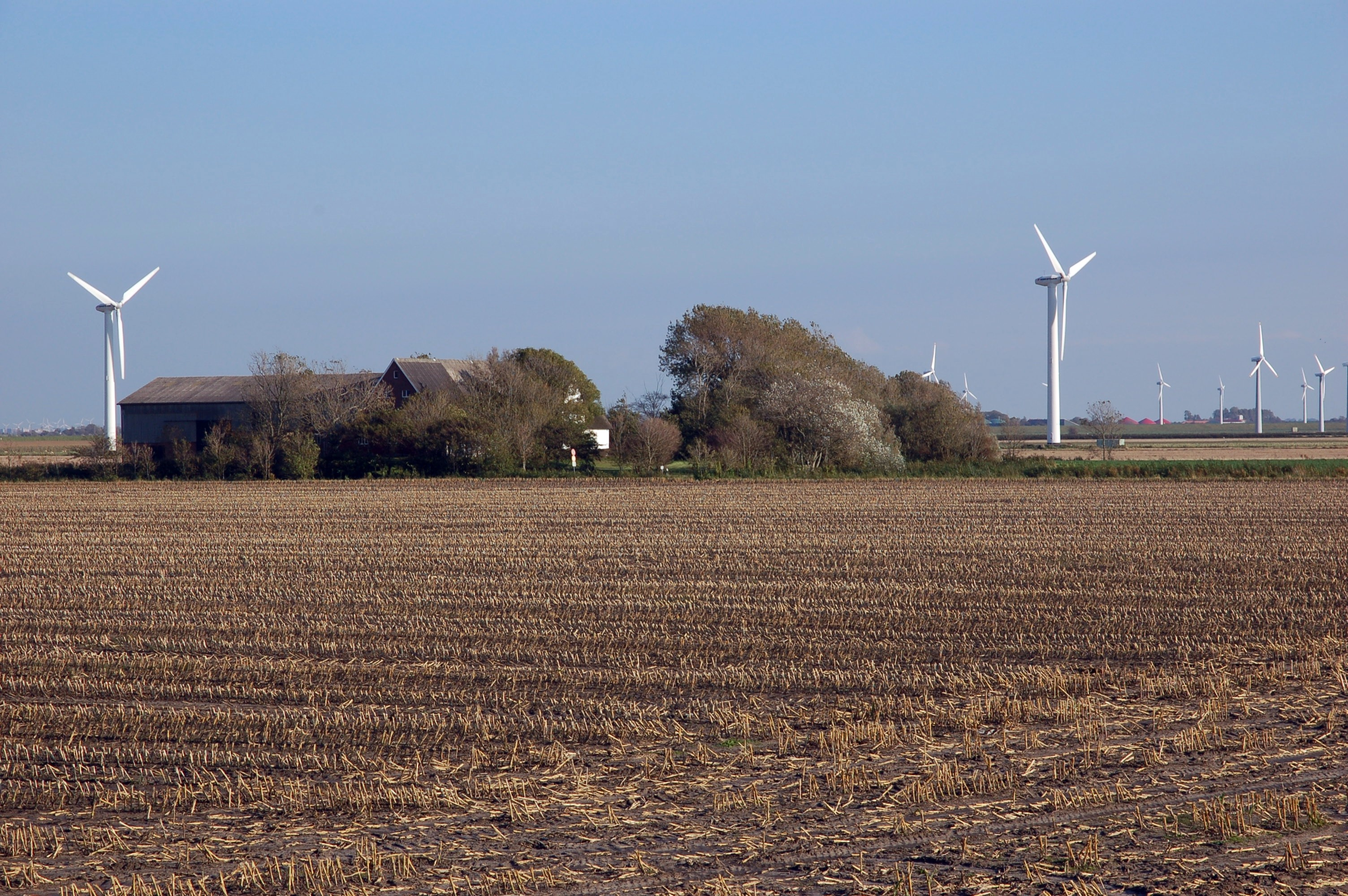 Elisabeth-Sophien-Koog, Nordstrand, Germany